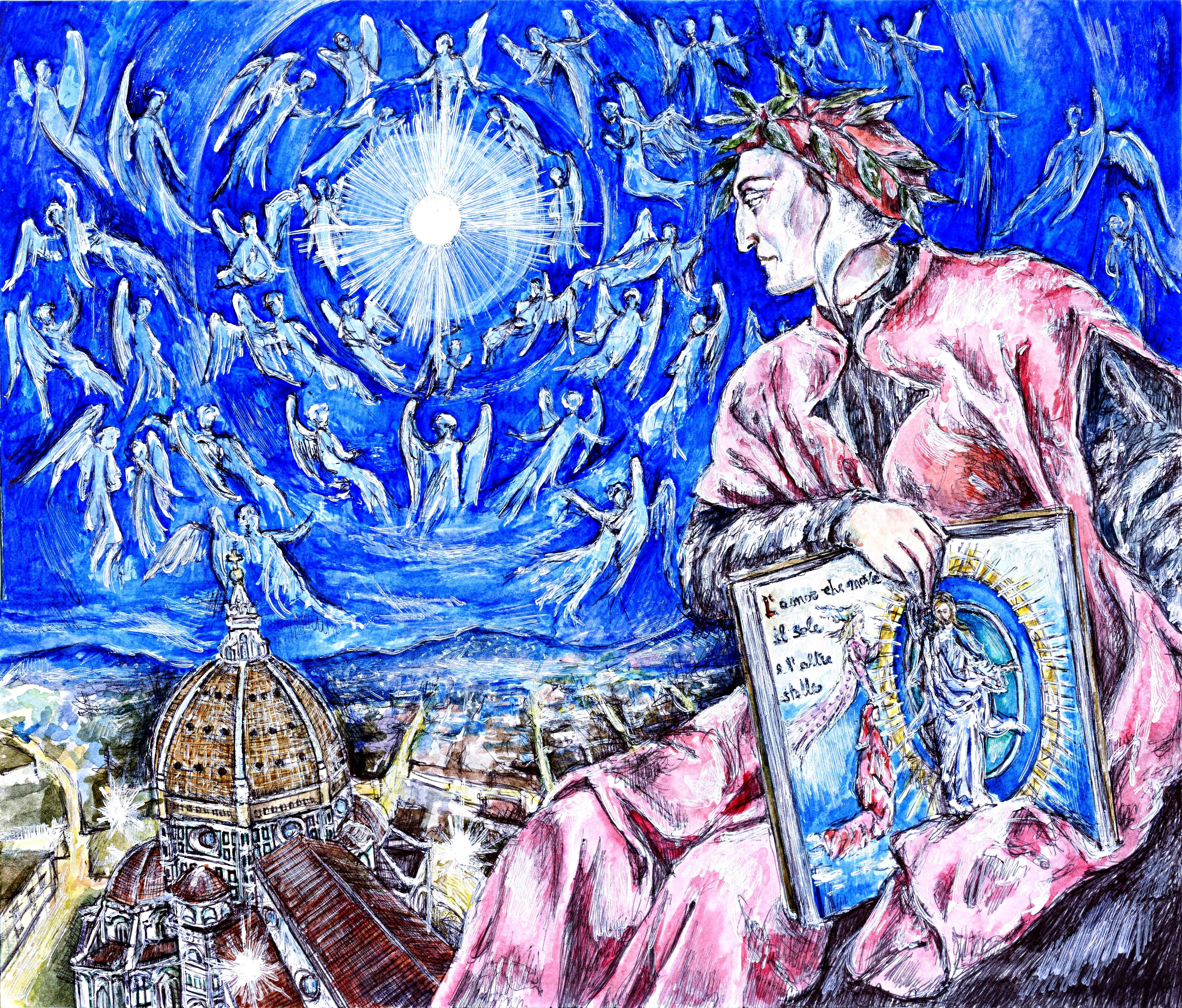 Illustration "Apotheosis of Dante Alighieri in Florence: the Love that moves the sun and the other stars", grattage on graphia by Giovanni Guida, 2020. Work created on the occasion of the 700th anniversary of the death of the great Italian poet, writer and politician (1321 -2021).